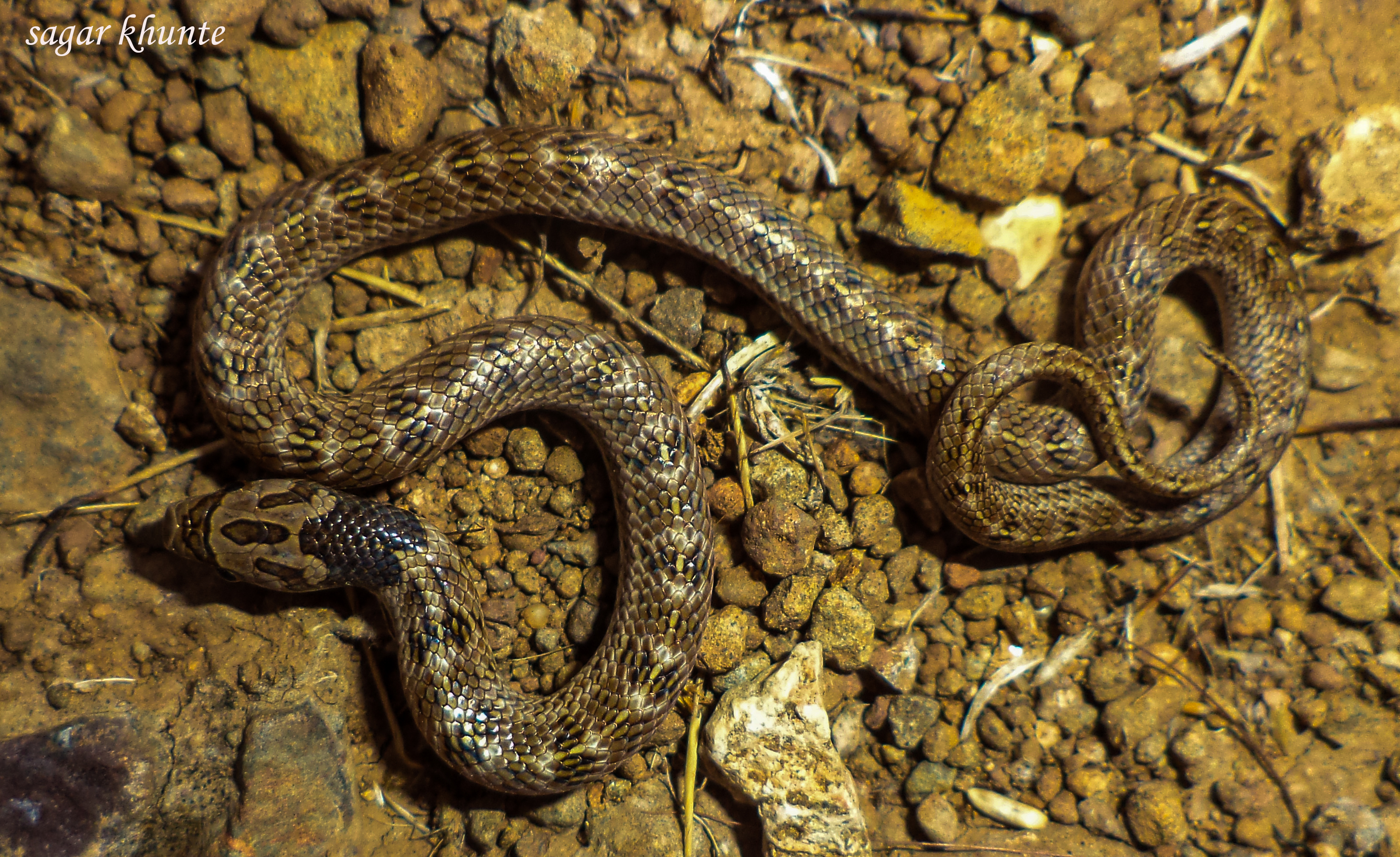 Oligodon taeniolatus